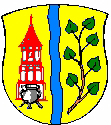 Coat of Arms of Reinstorf First upload in de-wp: Die wilde 13 (21:29, 8. Jan. 2007 - Bild:Gemeinde Reinstorf.jpg)